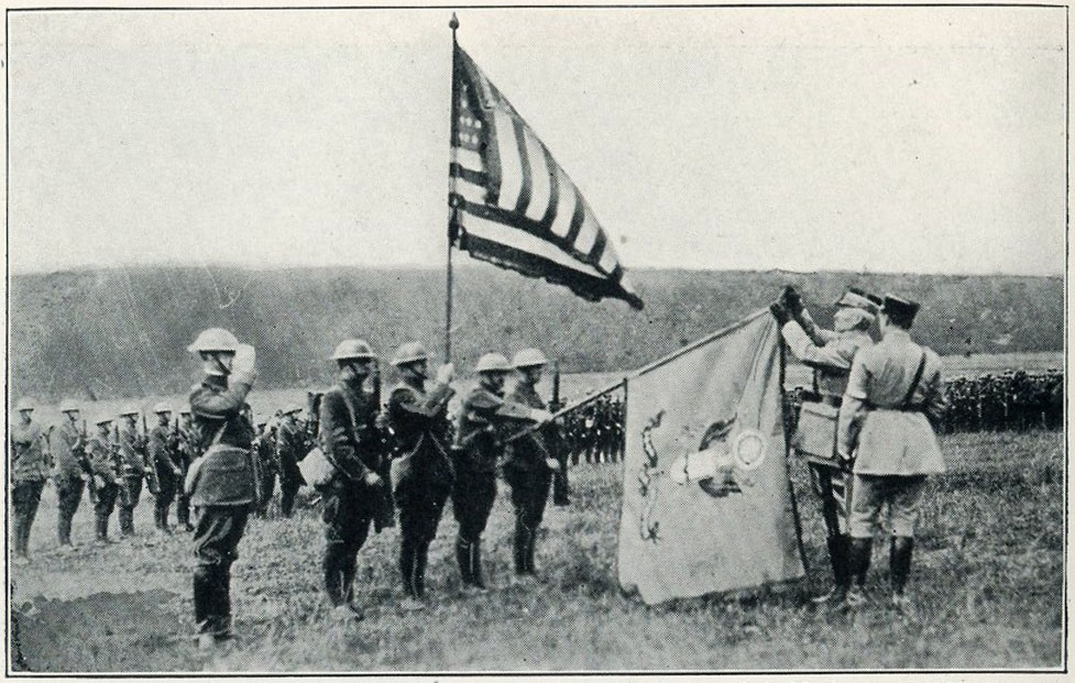 Decoration of regimental colors, U.S. 104th Regiment, U.S. 26th Division, at Boucq, France, April 28, 1918, by General Passaga, 32nd French Army Corps, first American regiment cited for bravery under fire.